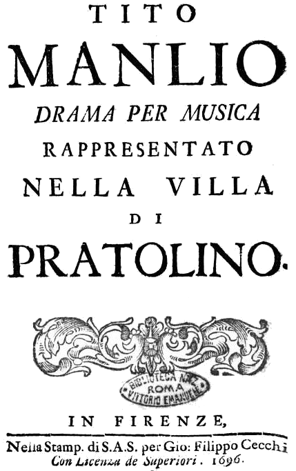 Carlo Francesco Pollarolo - Tito Manlio - titlepage of the libretto - Florence 1696